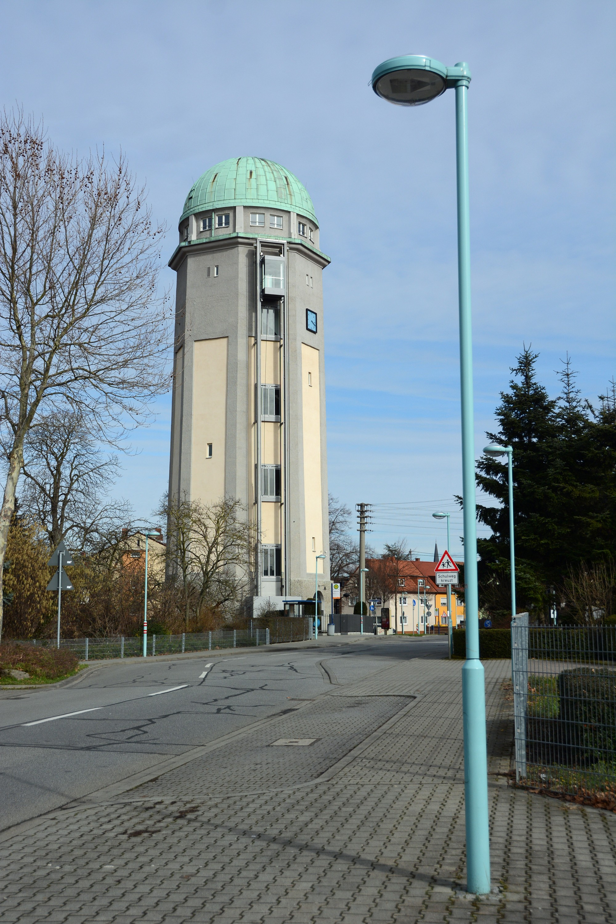 Watertower Mannheim-Seckenheim, Germany